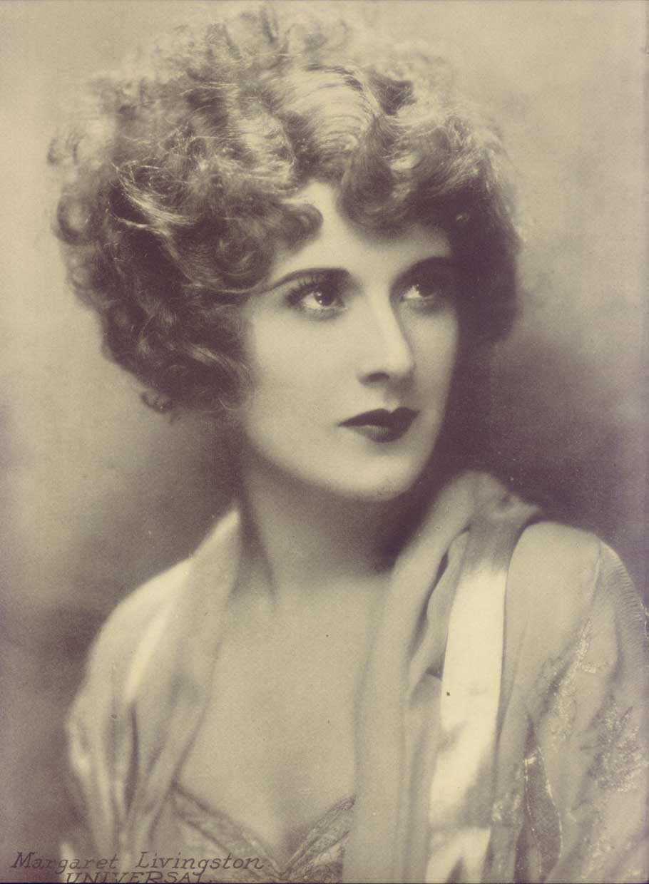 Publicity photo of Margaret Livingston for Argentinean Magazine. (Printed in USA)